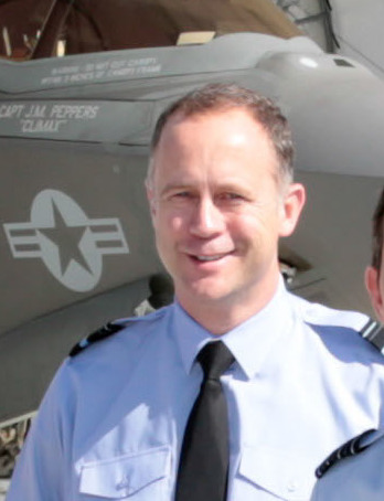 Royal Air Force Air Vice Marshal Gary M. Waterfall, air officer commanding of No 1 Group, visits Marine Fighter Attack Training Squadron 501 aboard Marine Corps Air Station Beaufort, Oct. 28. During the tour, Waterfall met with Col. Peter D. Buck, the Air Station commanding officer, to discuss future operations and training regarding the F-35B Lightning II Joint Strike Fighter program aboard MCAS Beaufort. Marine Corps Air Station Beaufort is designated as the Marine Corps’ Center of Excellence where all future fixed-wing pilots will complete initial training prior to designation as F-35B Lightning II JSF pilots. The F-35B Lightning II JSF will replace the Marine Corps’ aging legacy tactical fleet. In addition to replacing the F/A-18A-D Hornet, the Marine Corps will replace the AV-8B Harrier and EA-6B Prowler, essentially necking down to one common tactical fixed-wing aircraft. The integration of the F-35B/C strike fighters will provide the dominant, multi-role, fifth-generation capabilities needed across the full spectrum of combat operations to deter potential adversaries and enable future naval aviation power projection. Unit: Marine Corps Air Station Beaufort